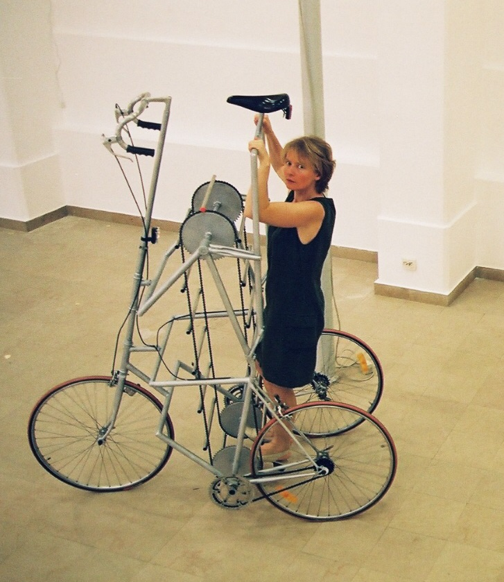 on the exhibition